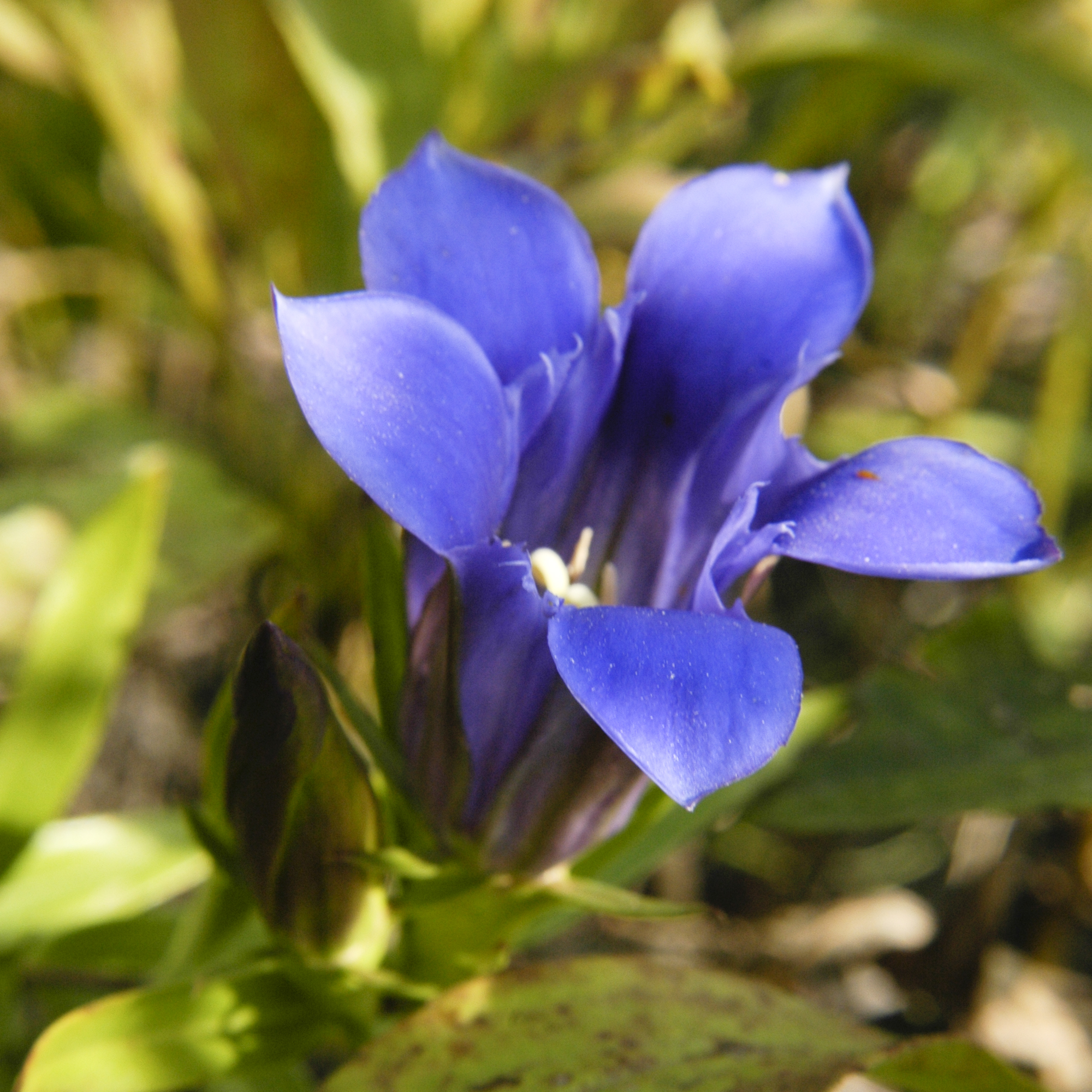 Gentiana puberulenta, James Woodworth Prairie Preserve, Glenview, IL, USA